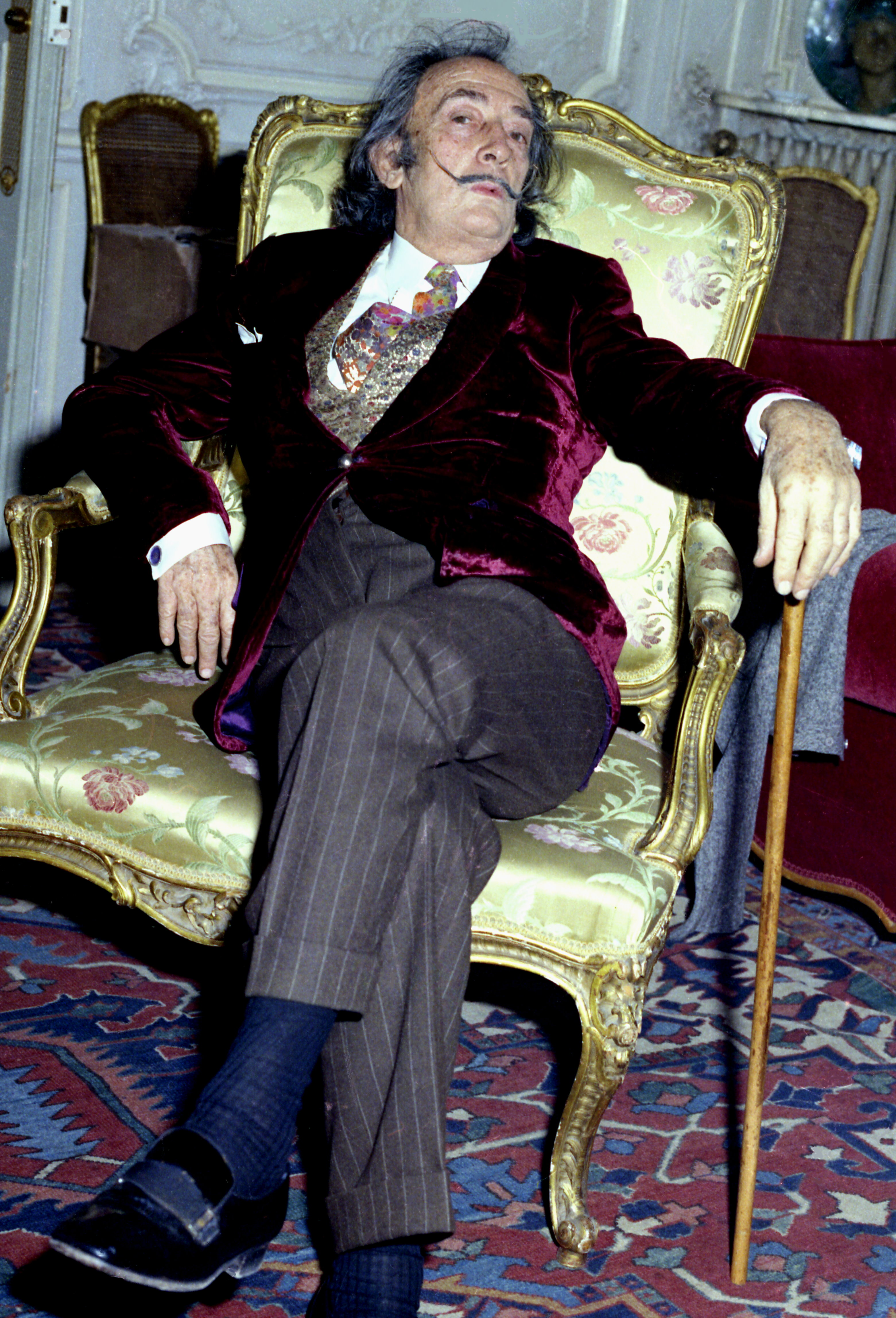 Portrait of Salvador Dali taken in his suite at the Hotel Maurice in Paris.